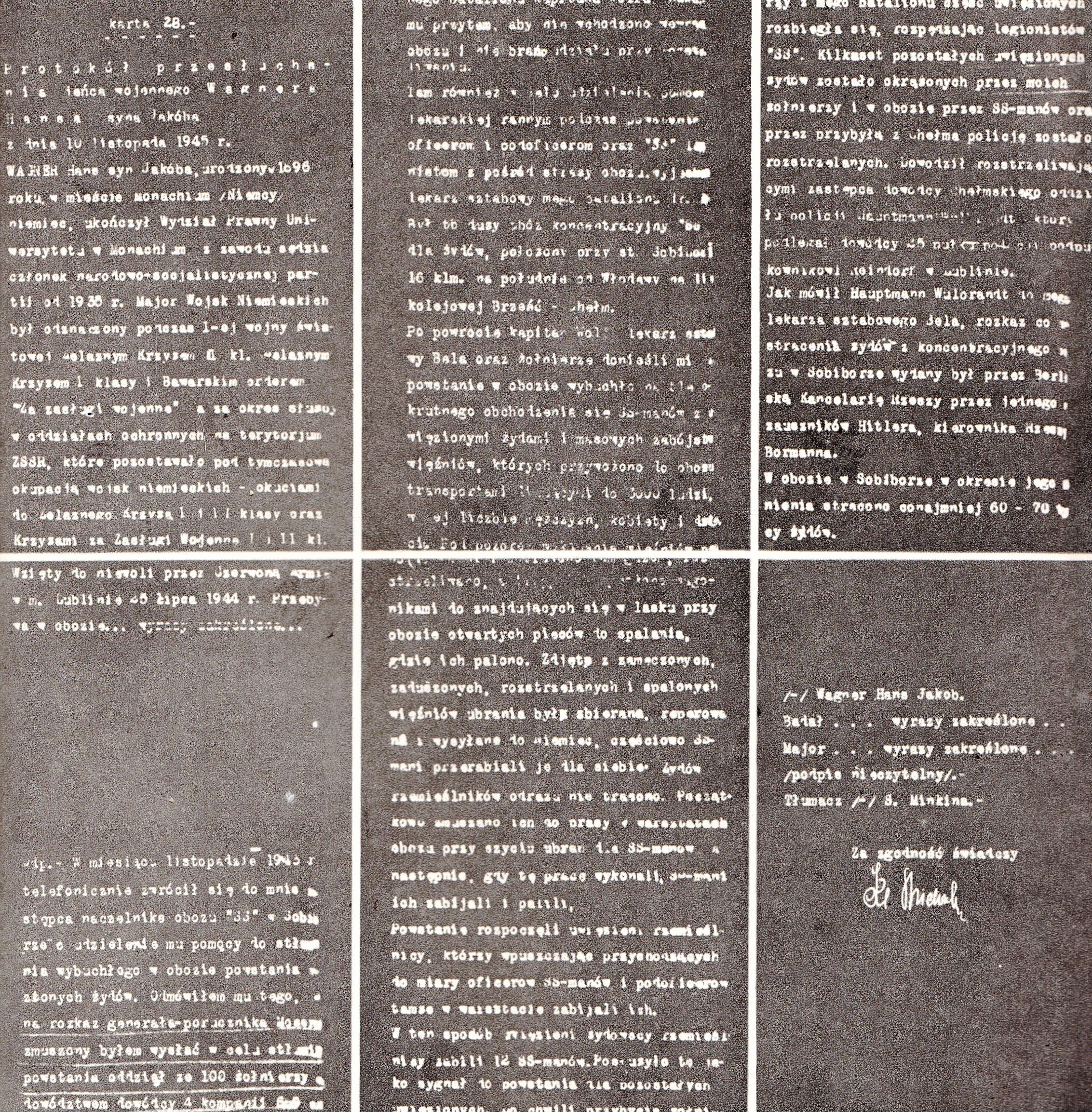 Testimony of major Hans Wagner regarding the intervention of soldiers from 689 batallion during the revolt in Sobibor